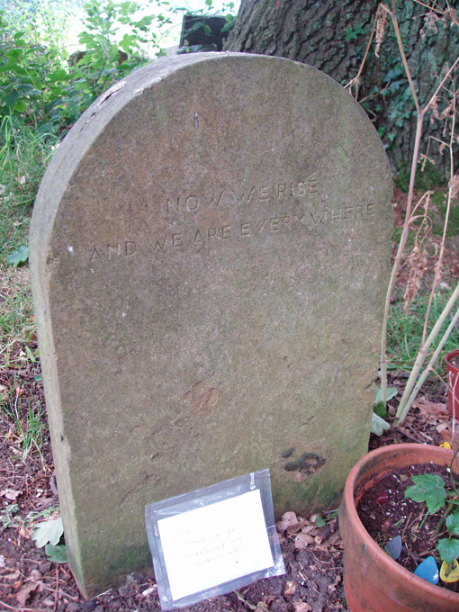 Detail of inscription on Nick Drake's gravestone in Tanworth-in-Arden, England.